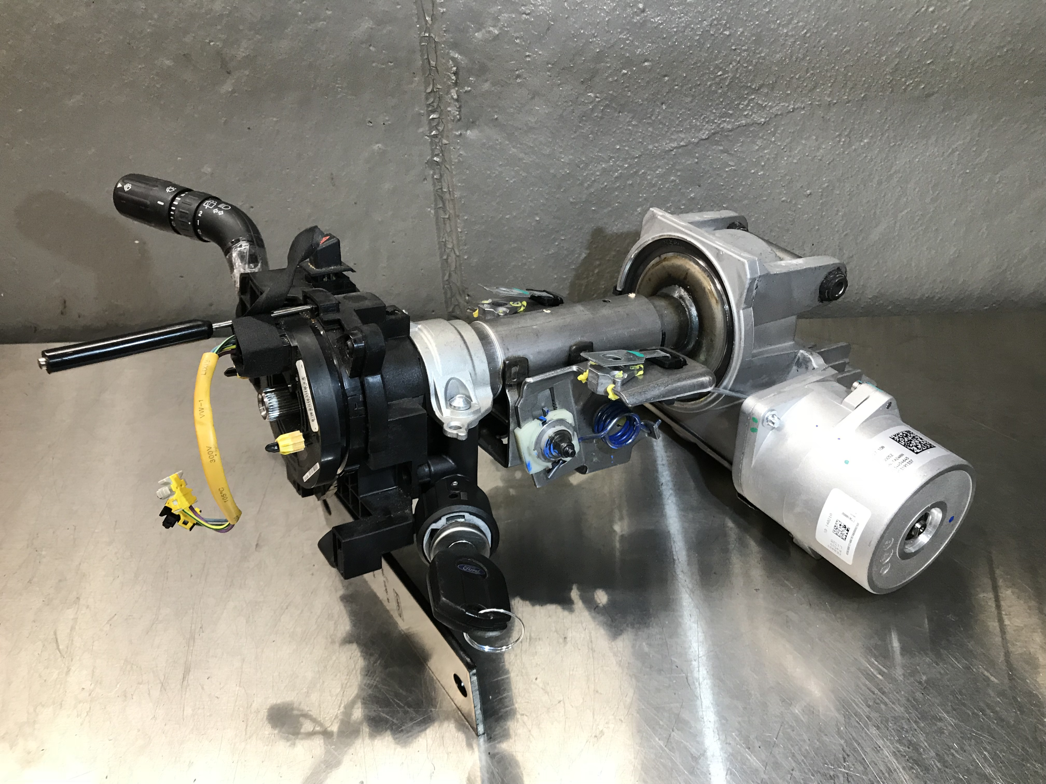 Photo of an EPAS power steering column